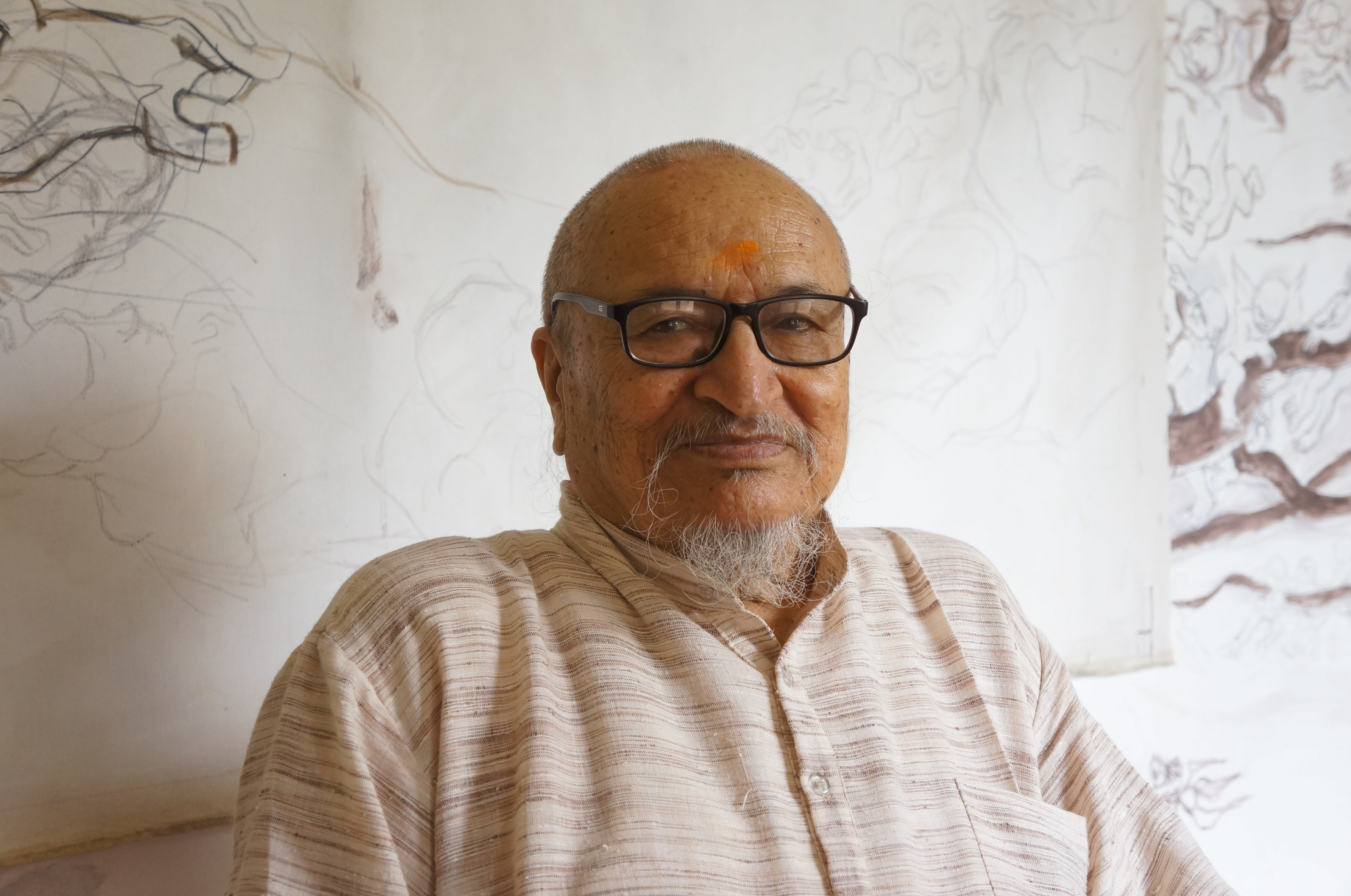 Shashi Bikram Shah as seen in his studio in 2017